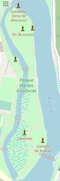 Geographic limits of the map: N: 42.4244° S: 42.4361° W: -8.6357° E: -8.4361°